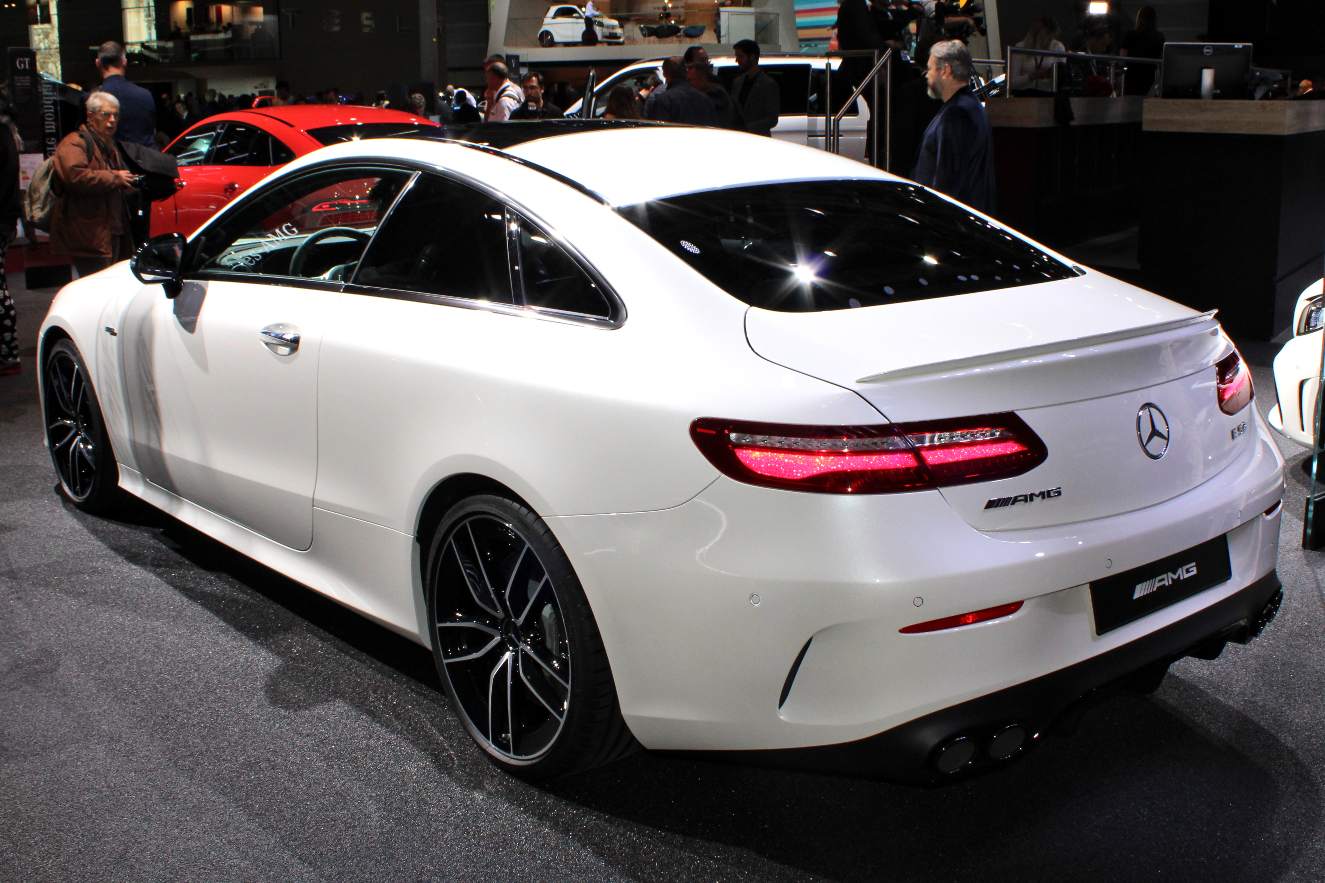 Mercedes-AMG E 53 Coupe at Paris Motor Show 2018